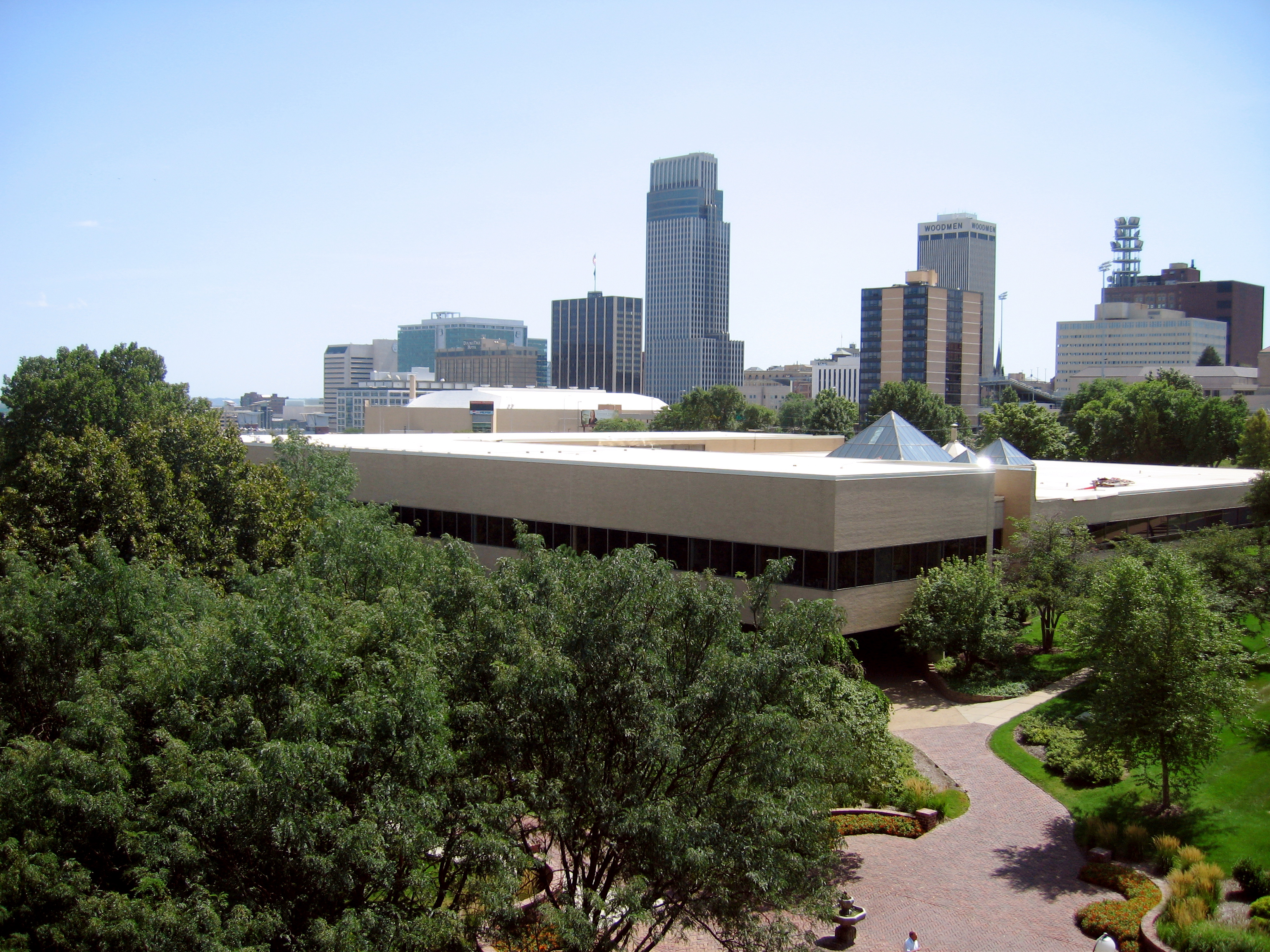 View of downtown Omaha from Creighton's east campus. The building in the foreground is the law school.